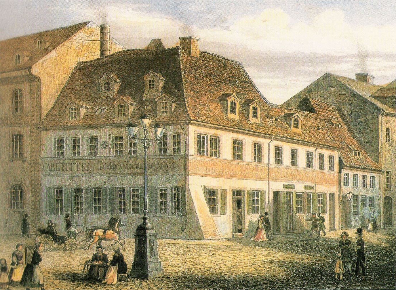 House of Schumann in Zwickau; old picture from flea market